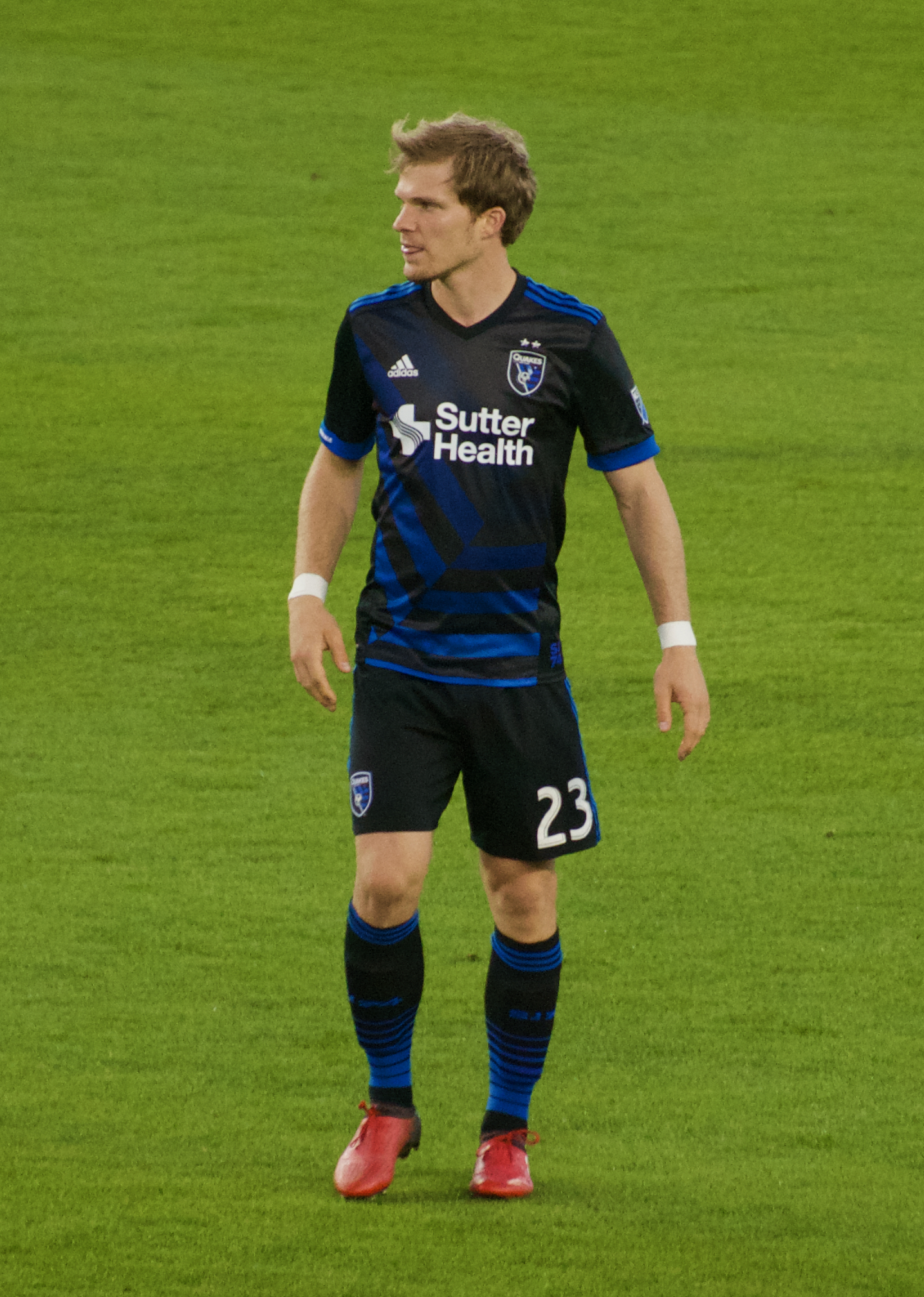 Florian Jungwirth playing for the San Jose Earthquakes at Avaya Stadium, 8 April 2017.